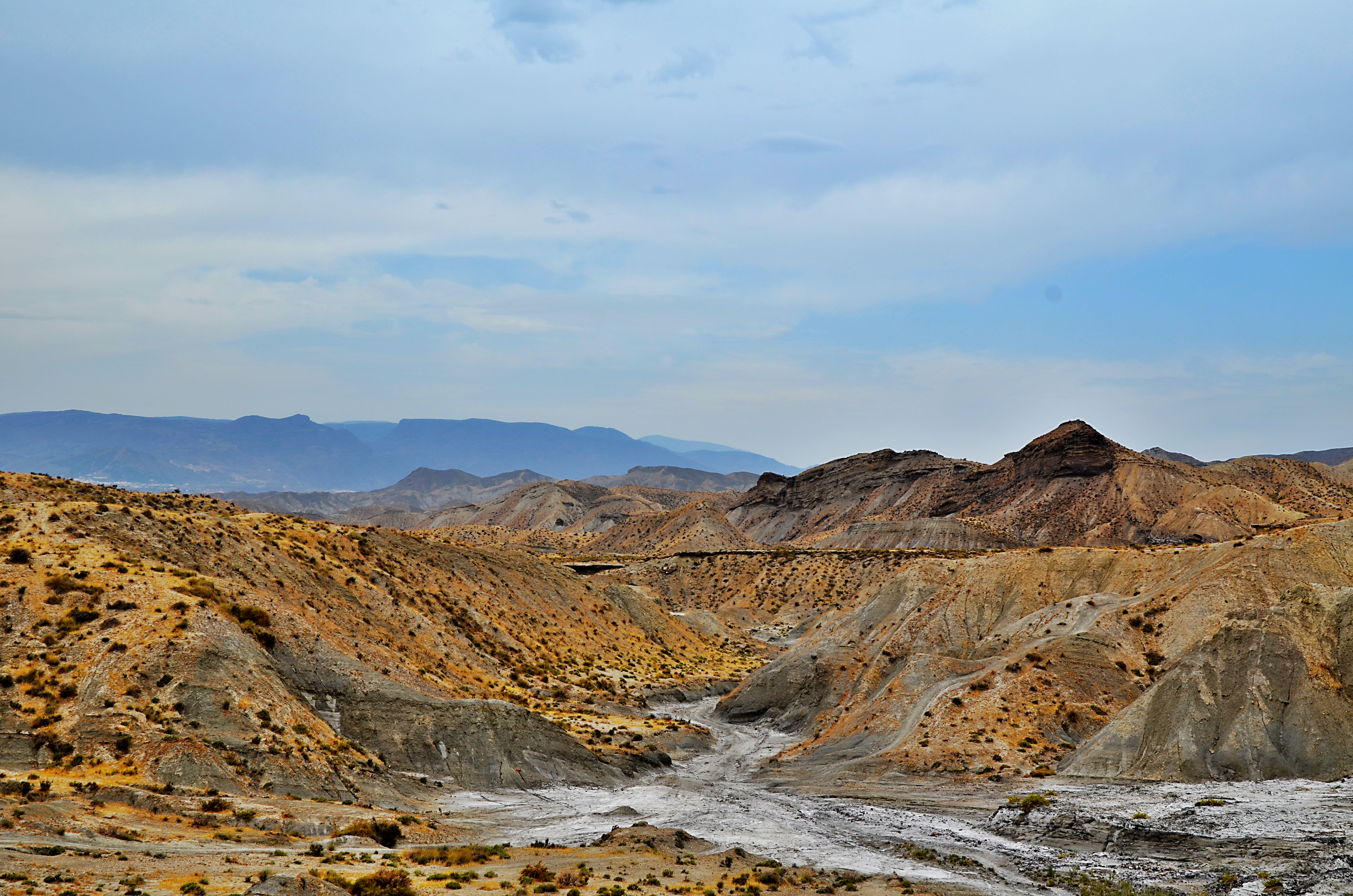 The Tabernas Desert in Almeria Spain